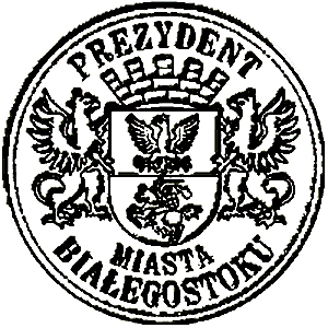 The official seal of The President of Białystok.